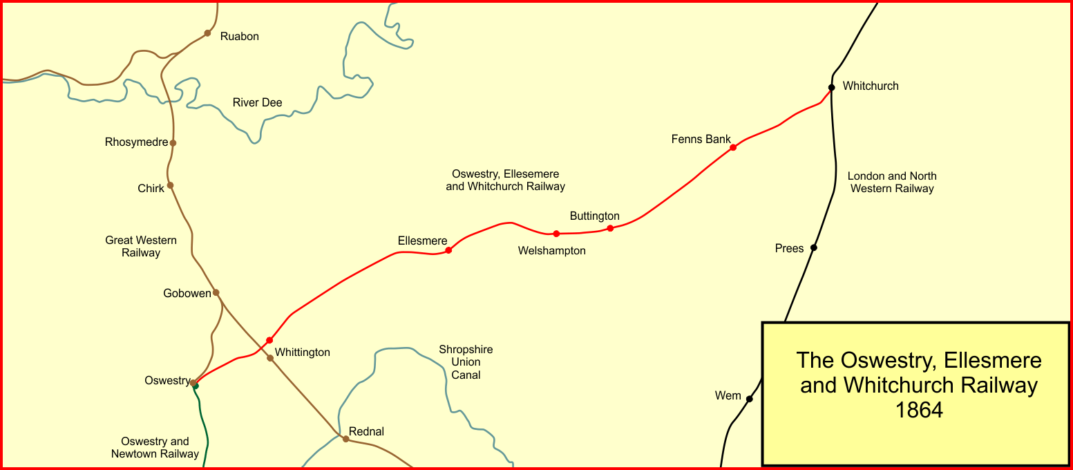 System map of the Oswestry, Ellesmere and Whitchurch Railway, in Shropshire and Flintshire (now Clwyd) in 1864